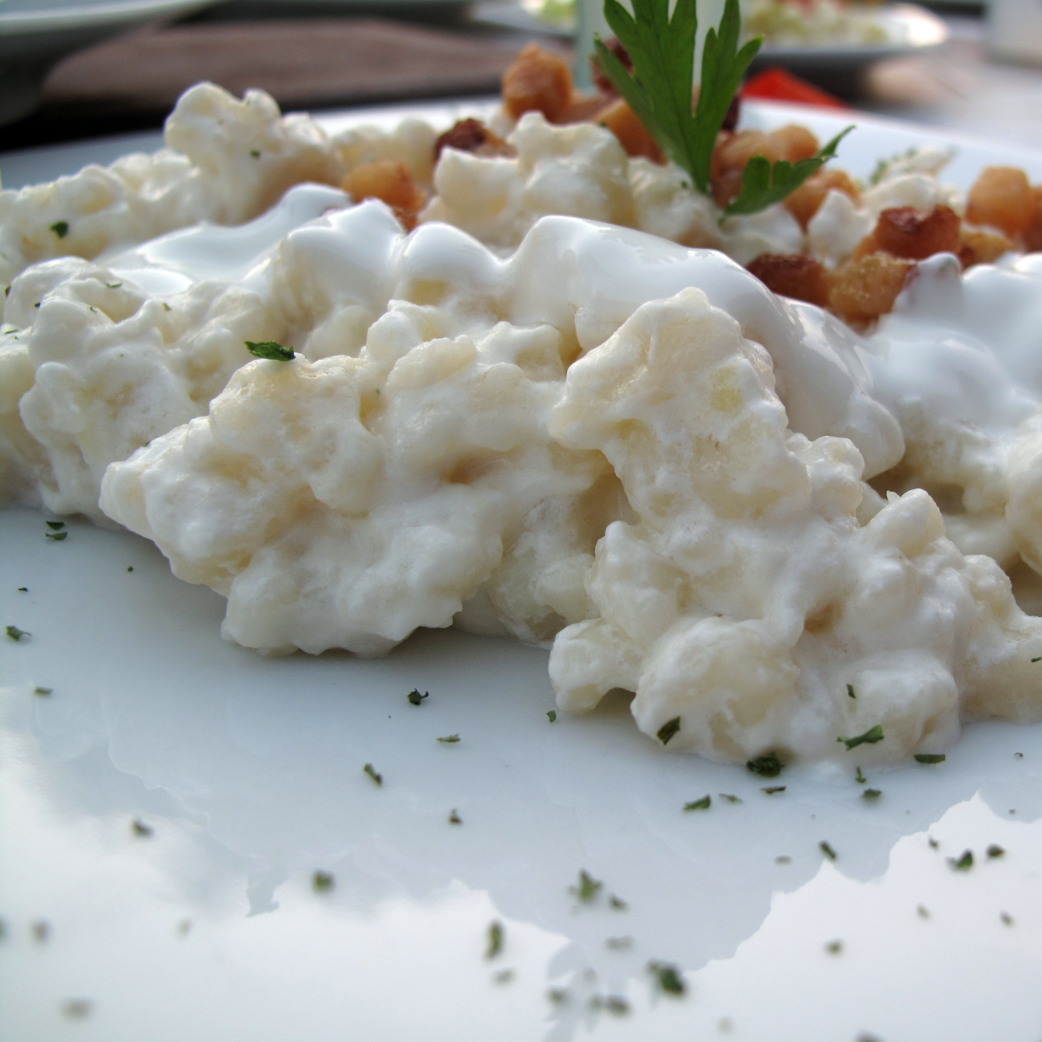 Bryndzové halušky, Slovak national dish